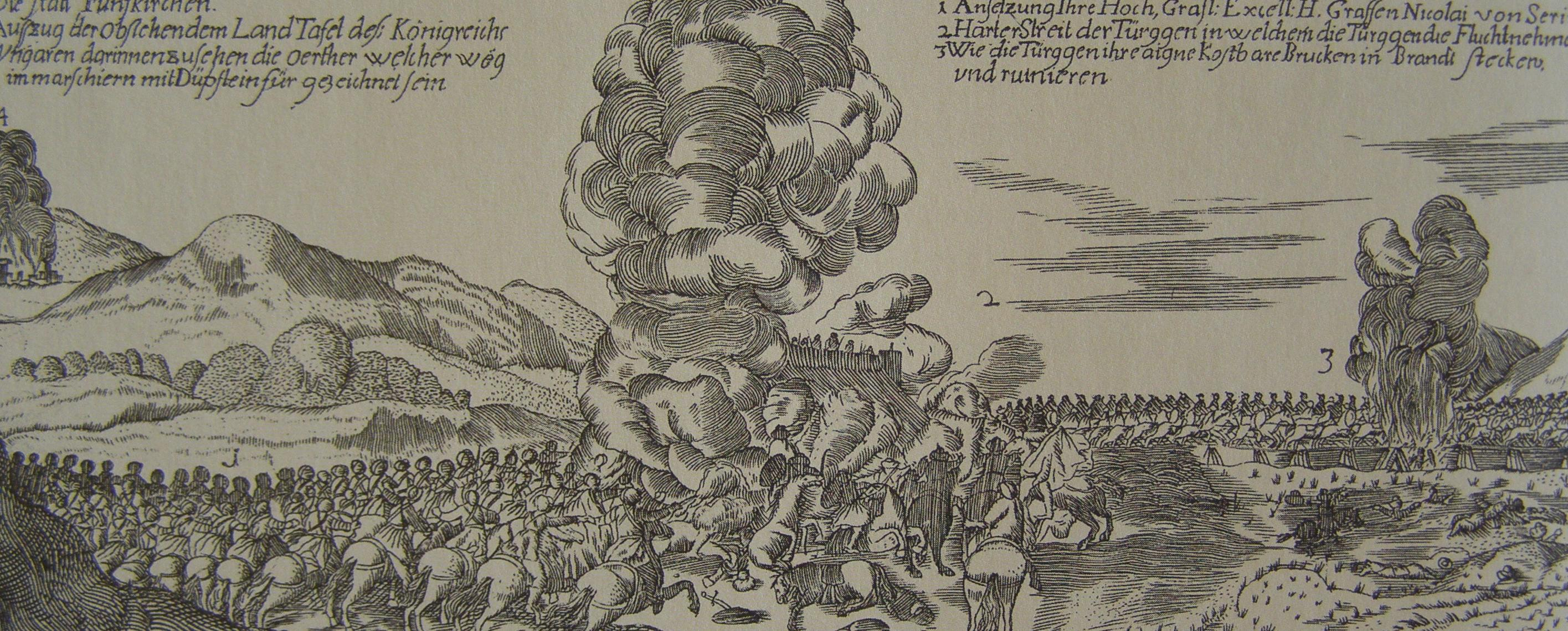 Nikola VII Zrinski (Hungarian: Miklós Zrinyi), Ban (Viceroy) of Croatia, liquidate of the Suleiman Bridge of Osijek (winter 1664)